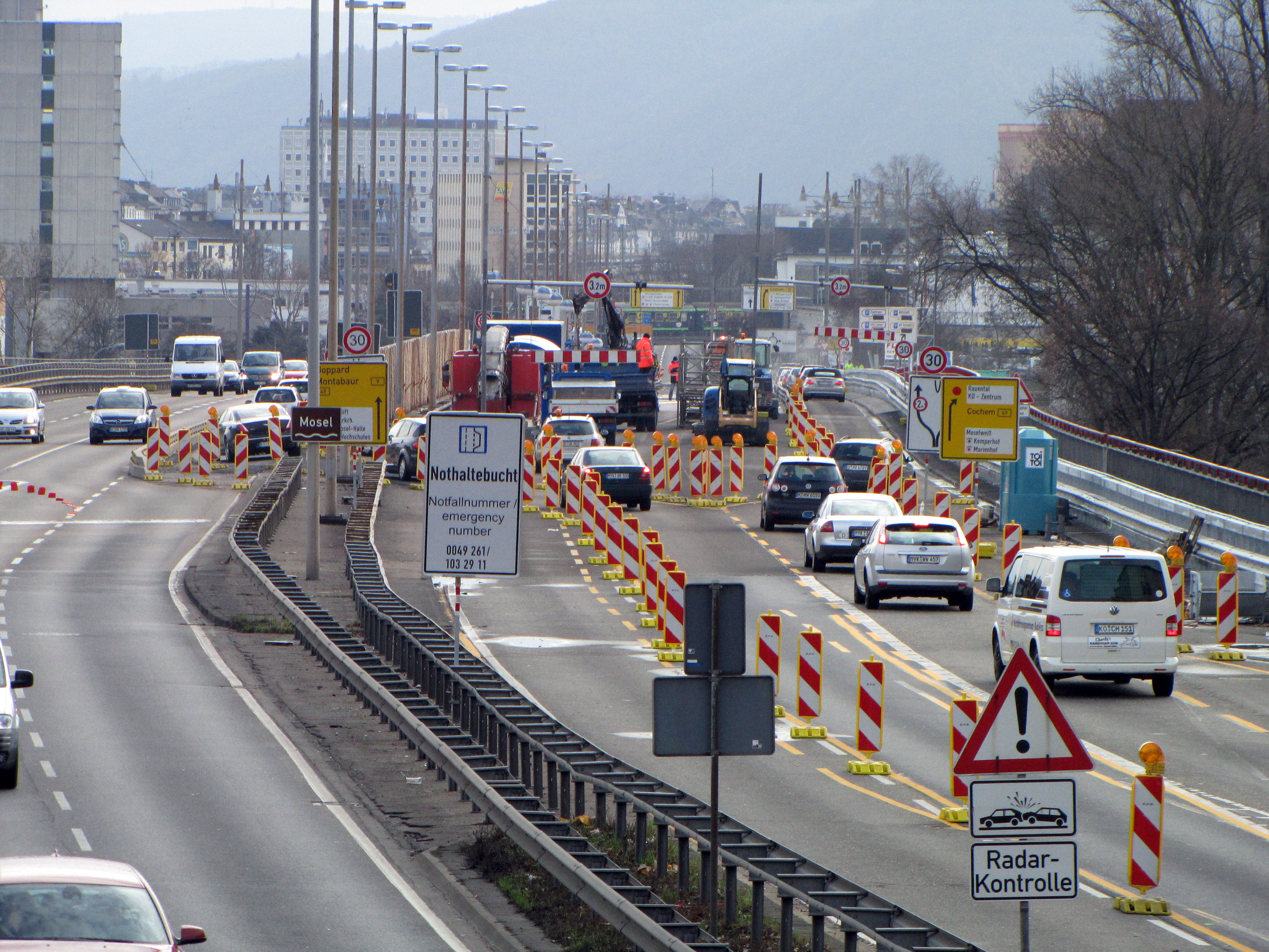 Bridge damages at Europabrücke in Koblenz